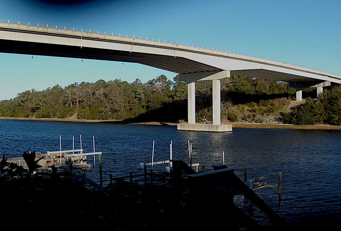 Looking northwest